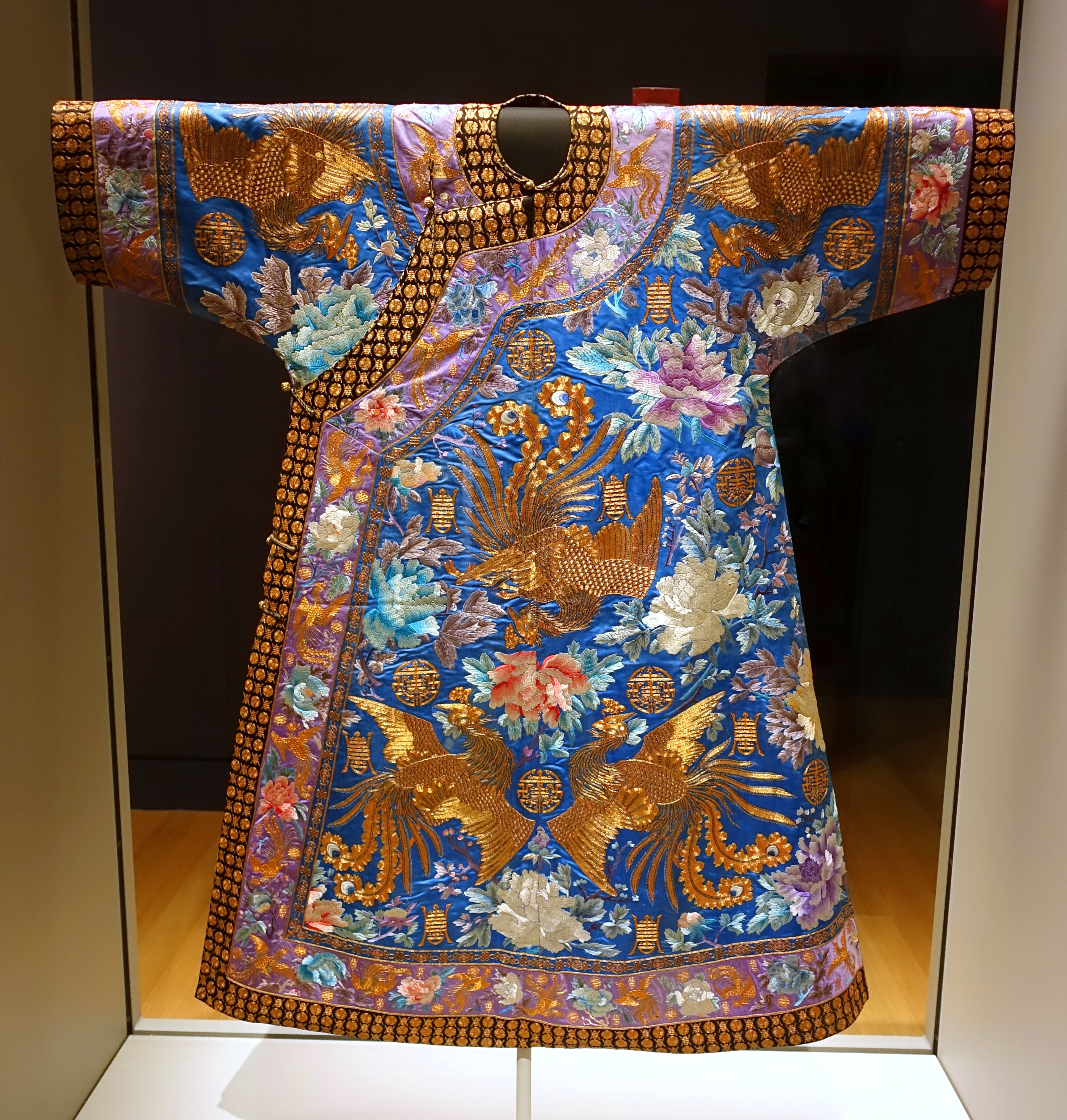 Exhibit in the Peabody Essex Museum - Salem, Massachusetts, USA.